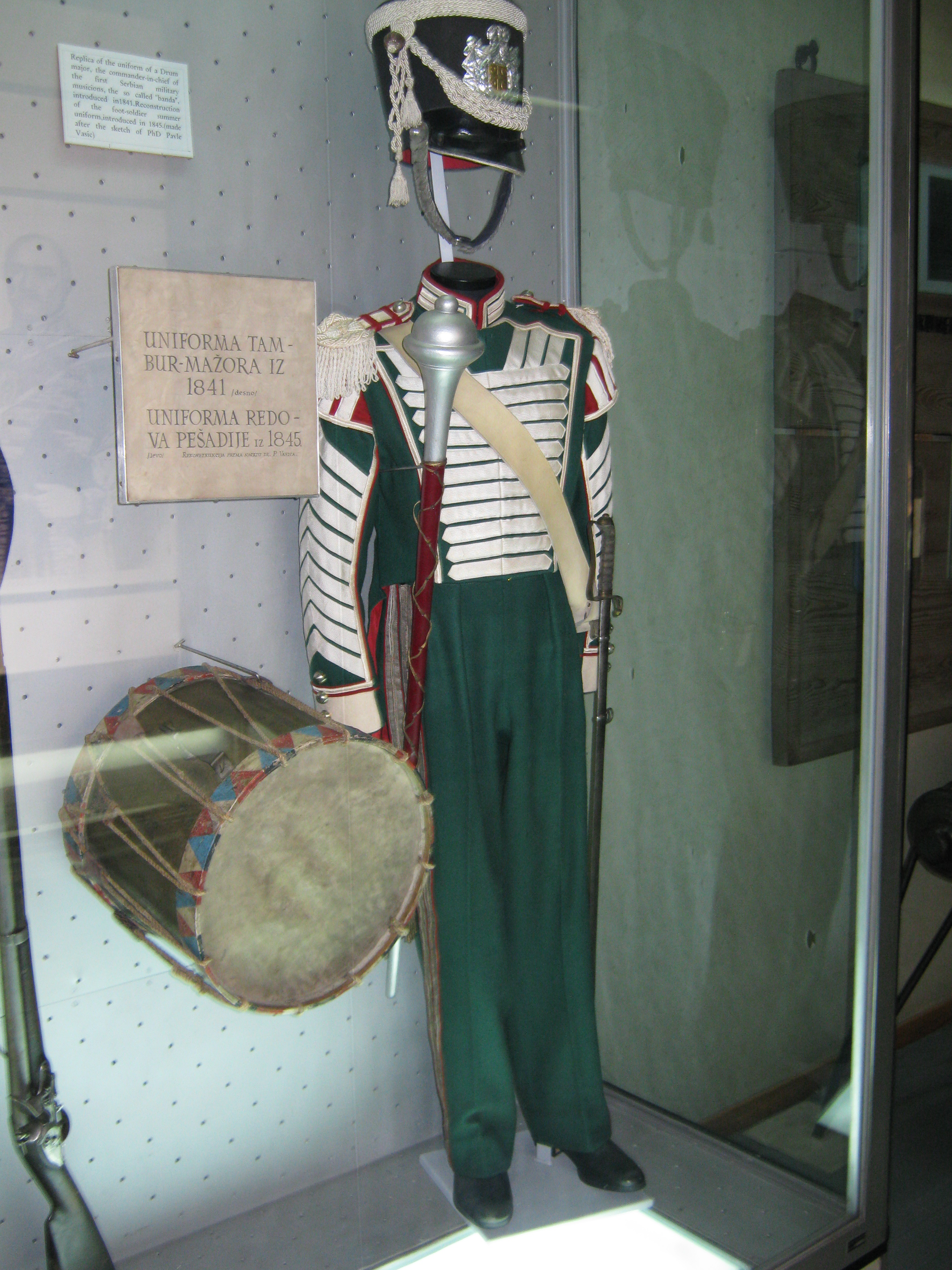 Uniform belongs to Tambur-Mažor of Serbian Army from 1841. Photo taken in:Military museum Belgrade